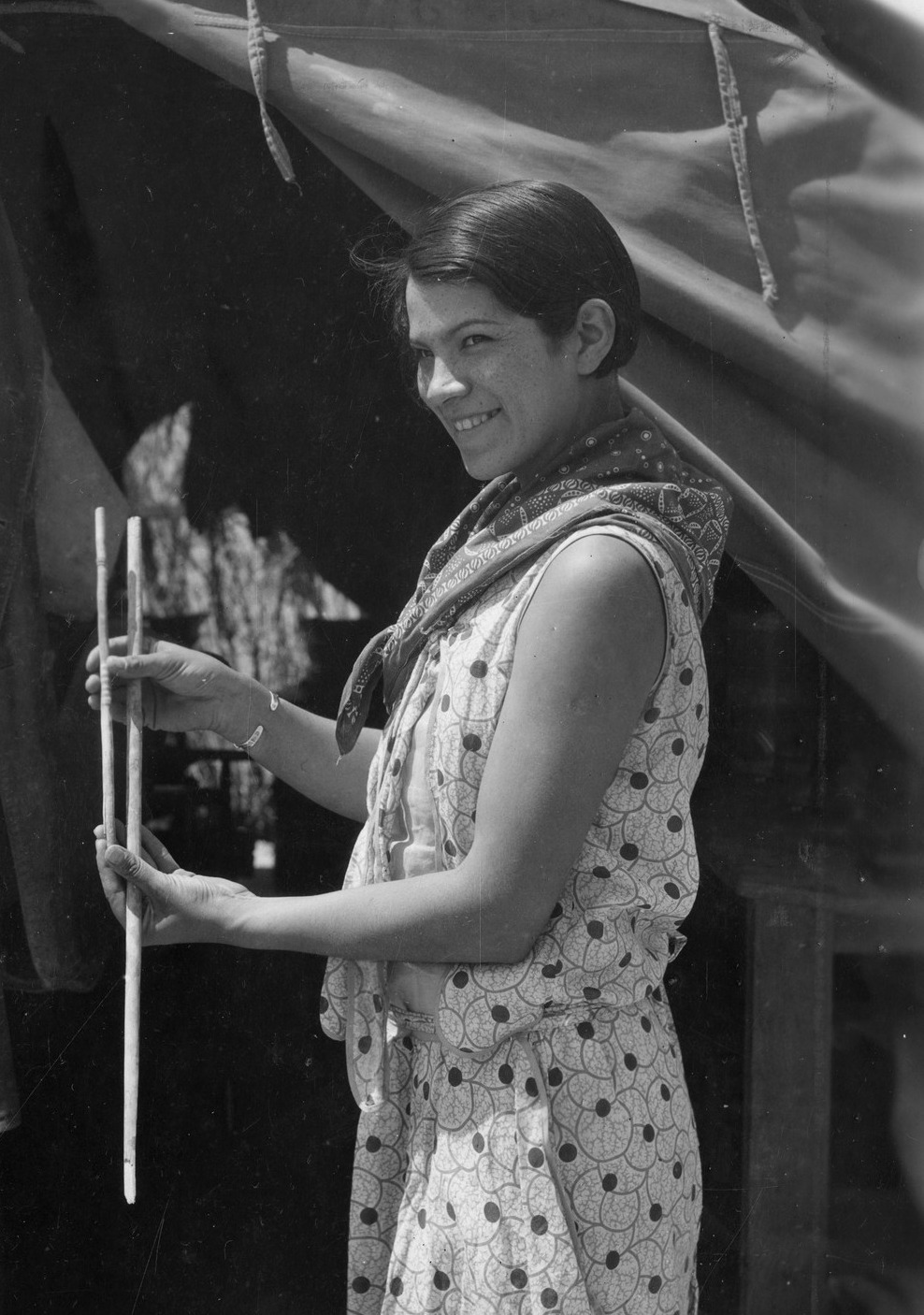 Bertha Parker Pallan [Cody] (1907-1978) is considered one of the first female Native American archaeologists. The caption to this photograph said that Bertha Pallan was an "expedition secretary" who was demonstrating "the difference in size of early type [small] and large type atlatl darts from Gypsum Cave." This photograph may be related to an expedition sponsored by the Southwest Museum (Los Angeles). In 1936, Bertha married Iron Eyes Cody (1904-1999). In the 1950s, they hosted a television program explaining Indian history and folklore and served as technical advisers on several films.